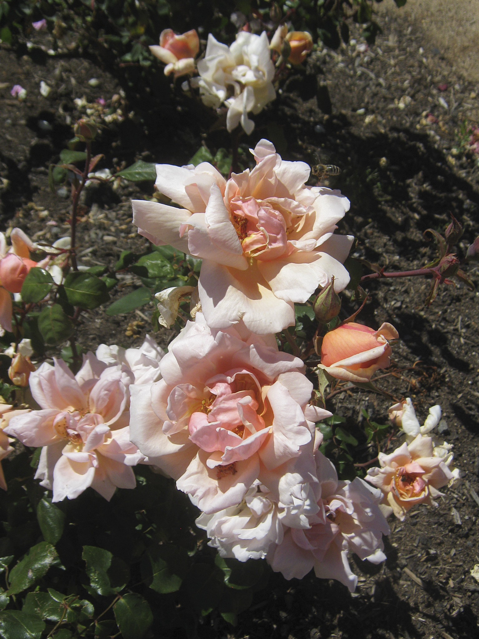 Rose 'Mrs A.R. Waddell' Hybrid Tea by Pernet-Ducher 1909. Photographed in Nieuwesteeg Heritage Rose Garden, Maddingley Park, Bacchus Marsh, Victoria